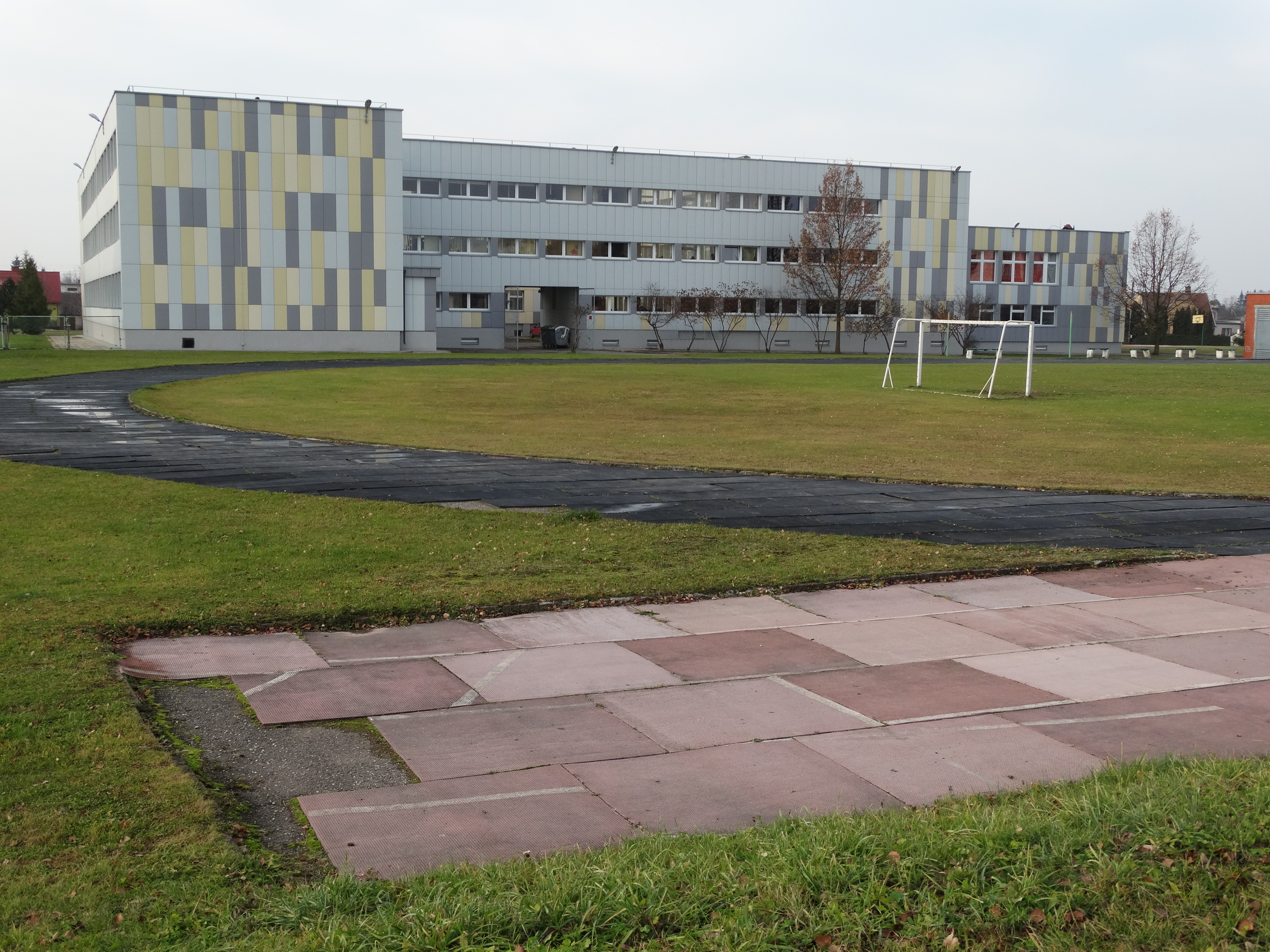 Kaštonai Basic School, Biržai, Lithuania